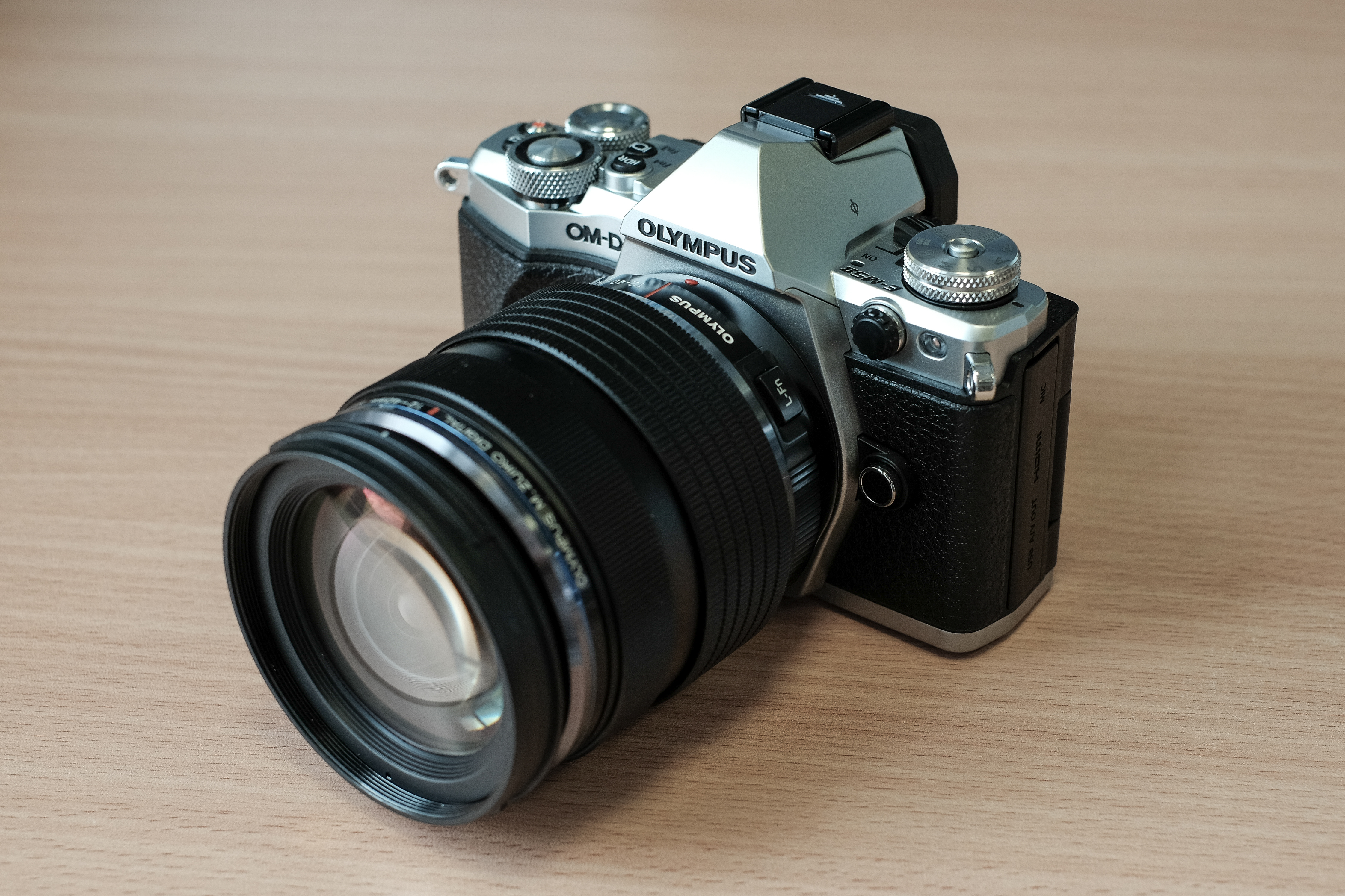 Olympus OM-D E-M5II